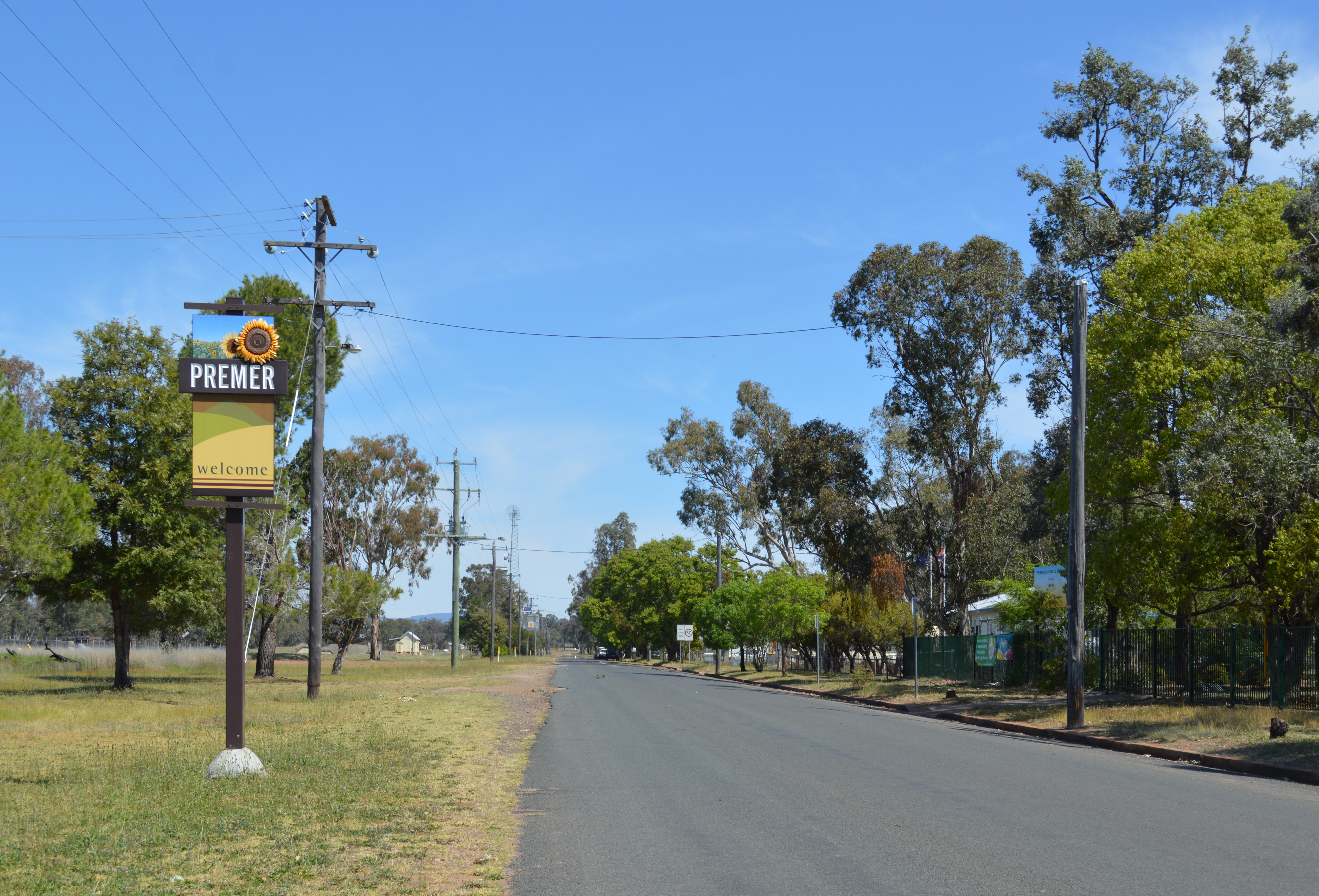 Ellerslie Street, the main street of Premer, New South Wales